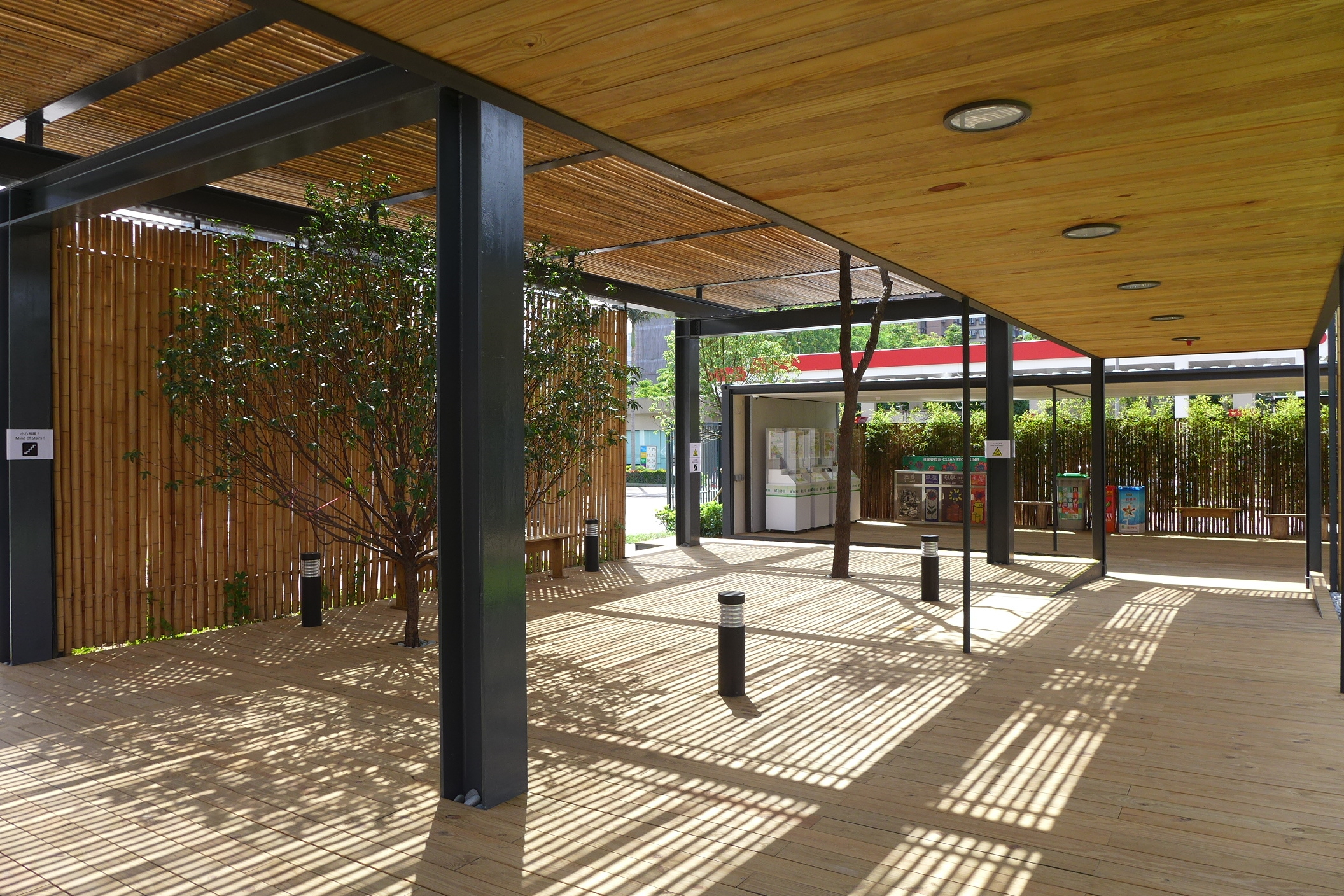 Sha Tin Community Green Station